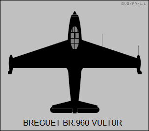 Plan-view silhouette of the Breguet Br.960 Vultur